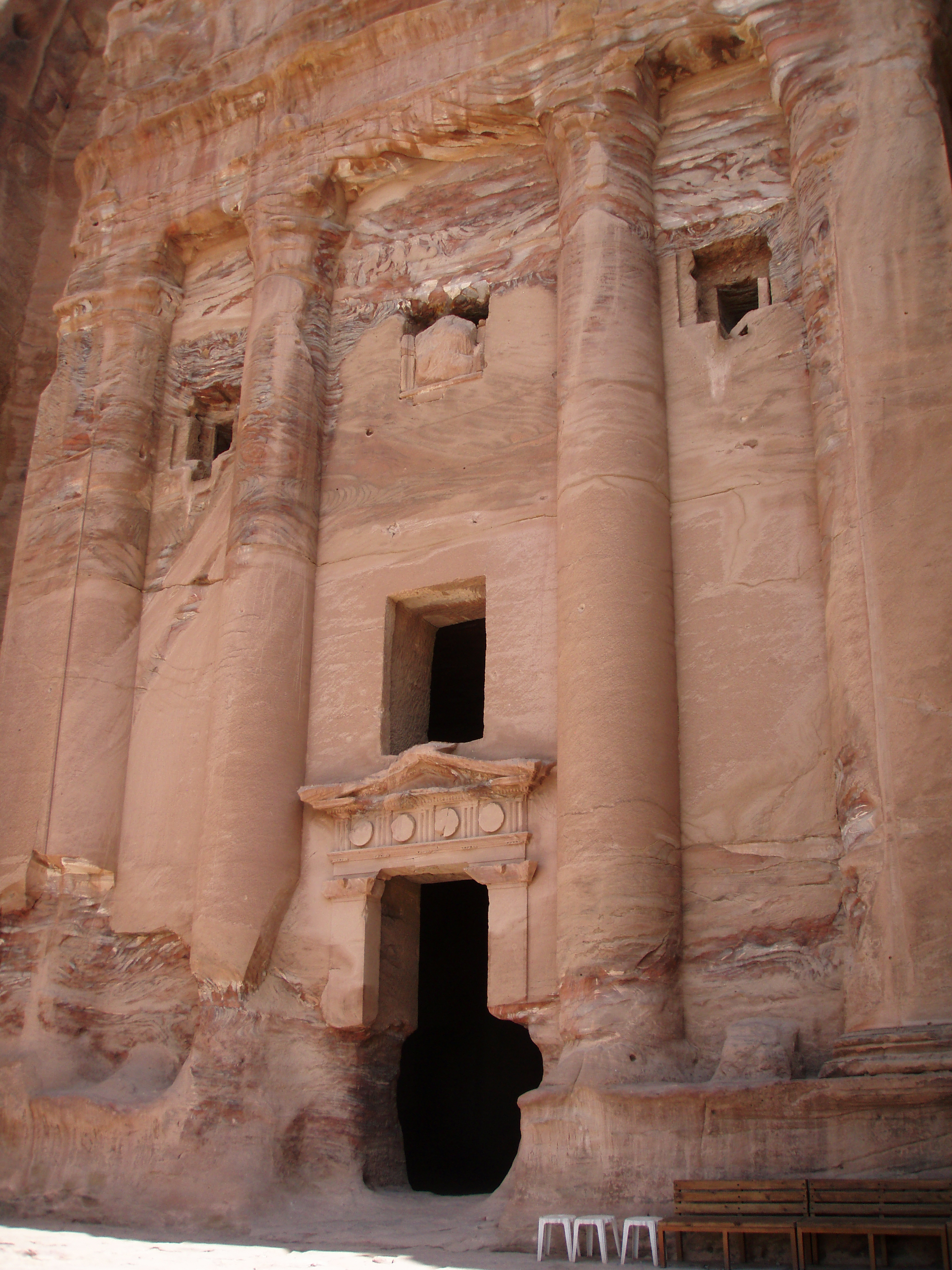 One out of multiple dwellings in Petra Jordan